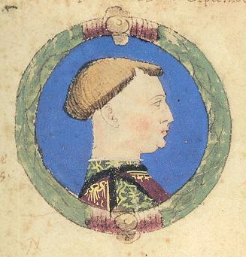 Ugo d'Este